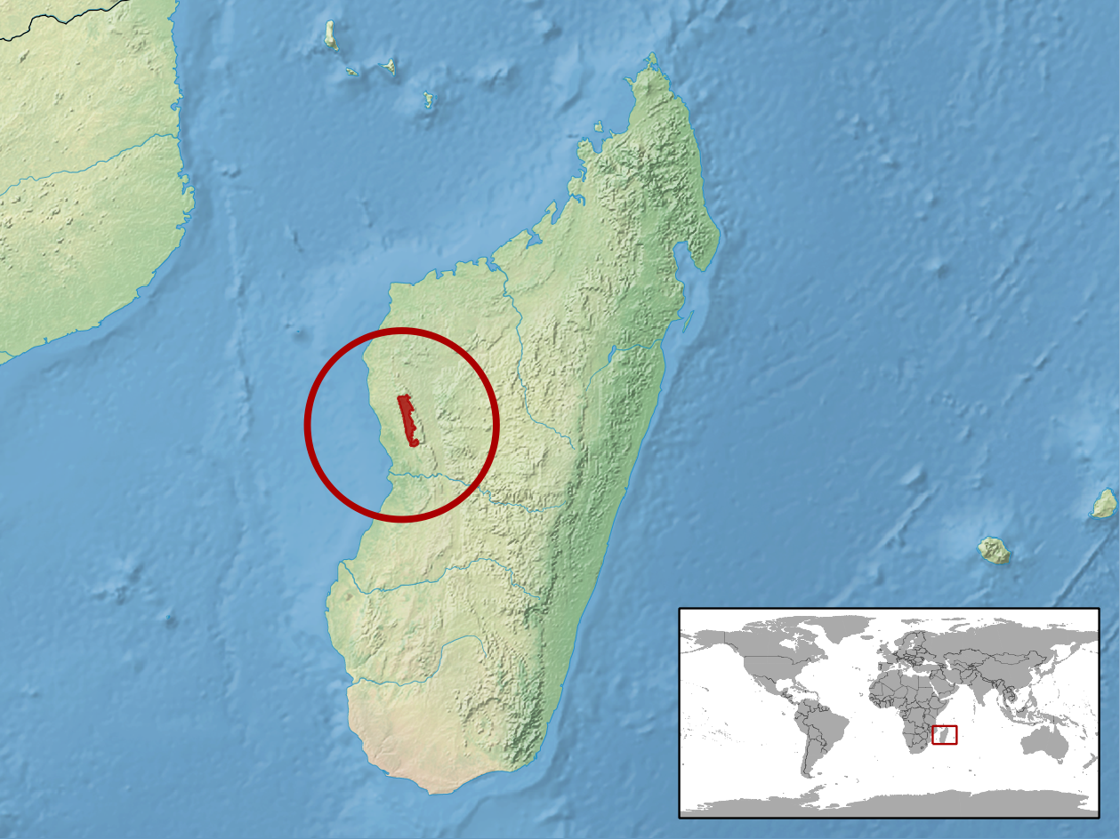 geographic distribution of Furcifer nicosiai